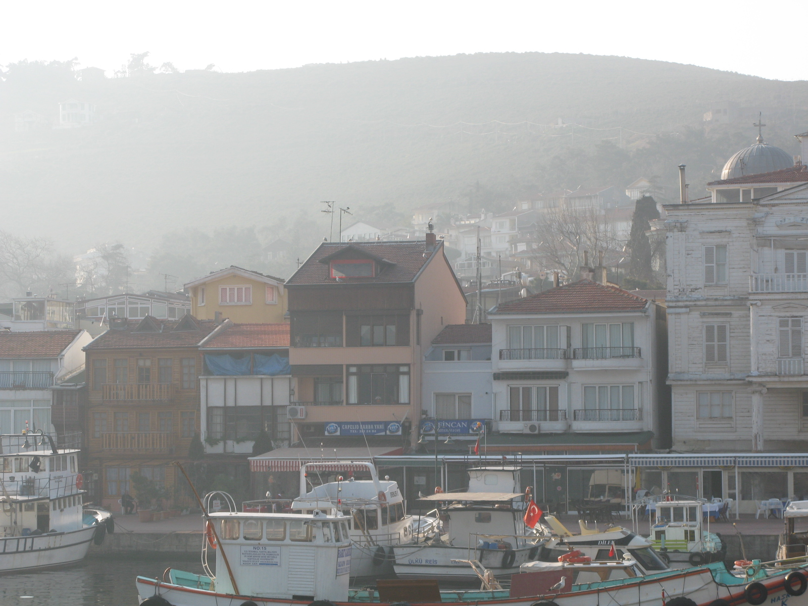 View of Burgaz island, Turkey